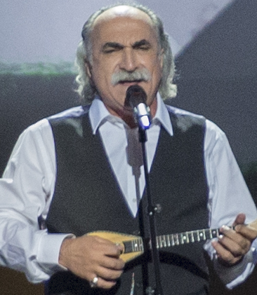 Koza Mostra and Agathonas Iakovidis representing Greece with the song "Alcohol Is Free" during the second dress rehearsal of the second semi final of the Eurovision Song Contest 2013 Malmö. (Help translate this text)